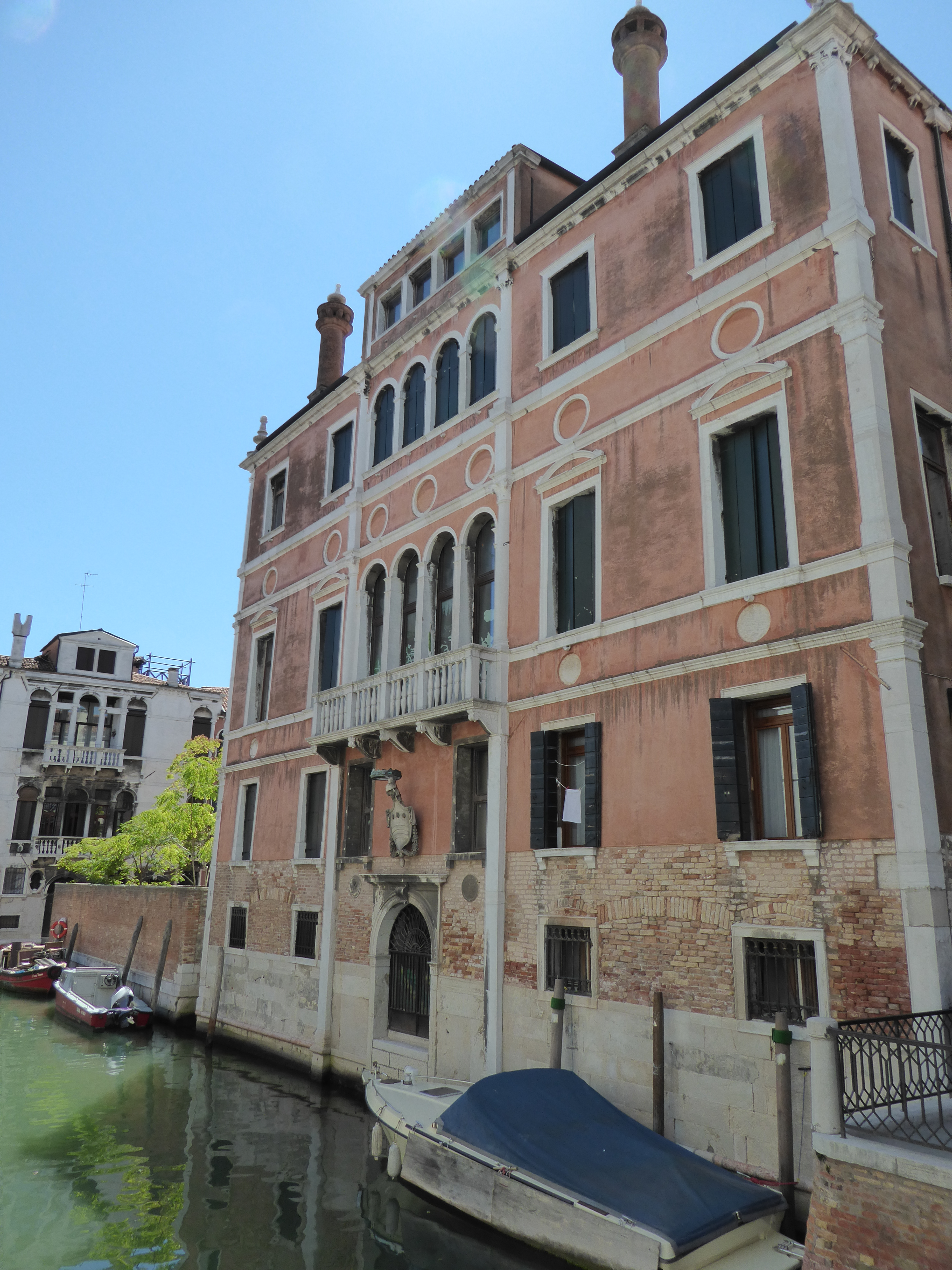 Palazzo Donà delle Rose (San Polo)